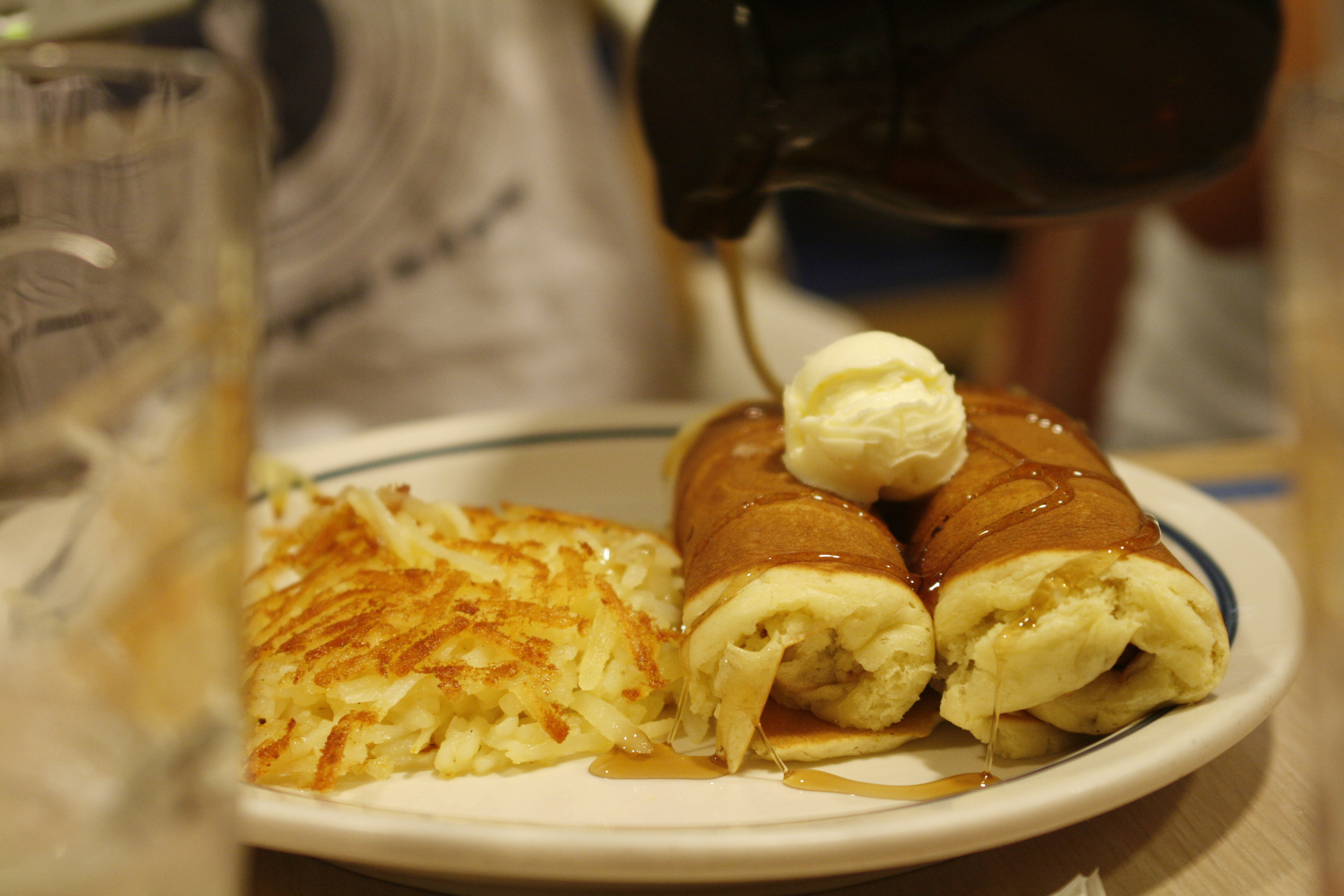 Sausage wrapped in pancakes, as served at IHOP (International House of Pancakes - a chain of restaurants franchised and operated by Glendale, California, USA-based International House of Pancakes, Inc., a wholly owned subsidiary of DineEquity, Inc.